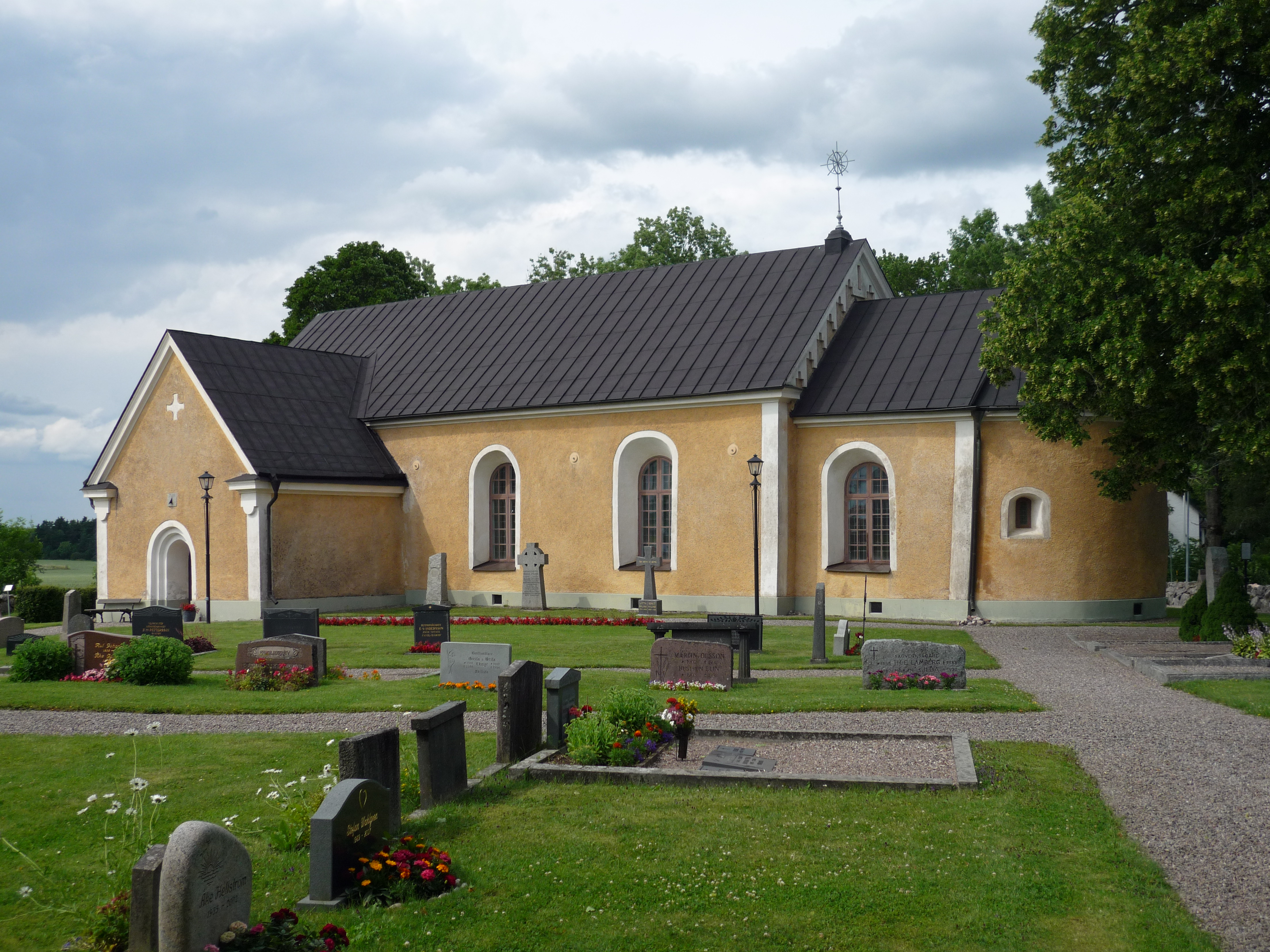 Skogstibble church